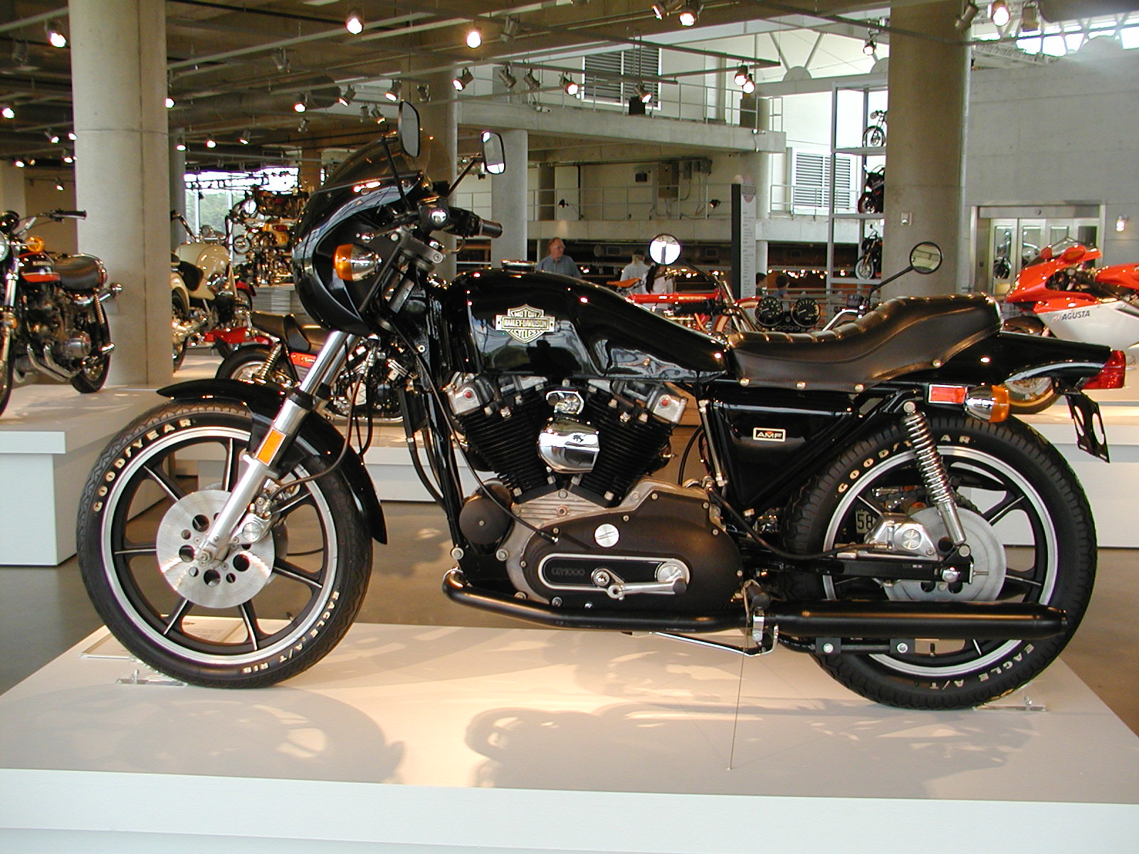 Barber Motorcycle Museum - Oct 22 2006 (556) 1977 Harley Davidson XLCR